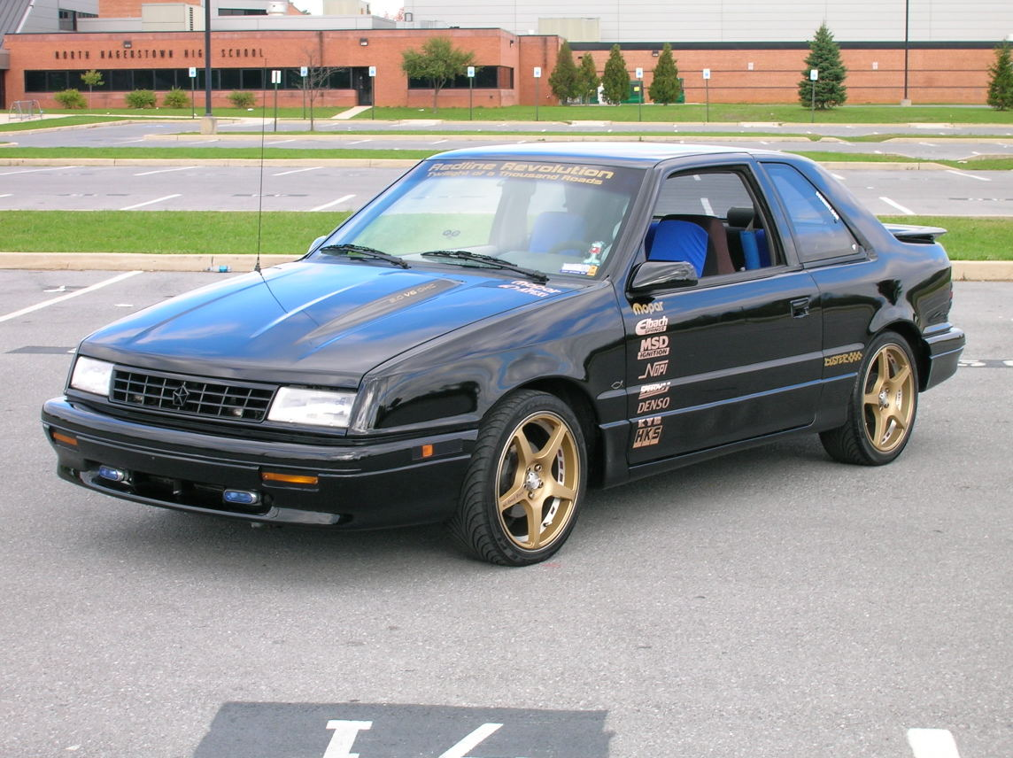 1993 Plymouth Duster (Modified) This car had the original 3.0L V6 removed and replaced by a 2.2L Turbo I4 from a 1988 Shelby CSX. Owner: Vinny Illi